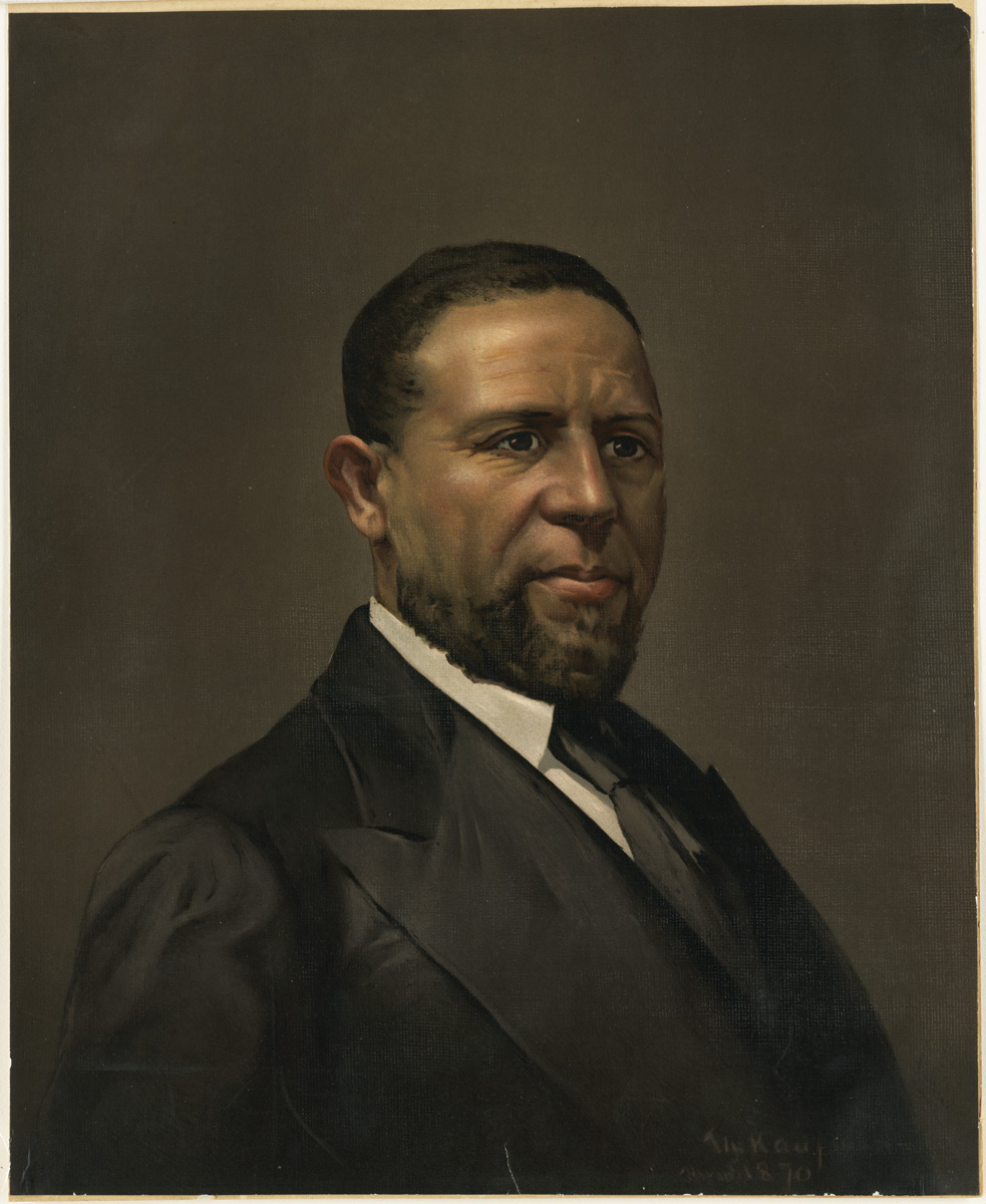 File name: 07_11_000591 Title: Senator Revels Creator/Contributor: Kaufmann, Theodor (artist); L. Prang & Co. (publisher) Date issued: 1861-1897 (approximate) Copyright date: Physical description note: Genre: Chromolithographs; Portrait prints Location: Boston Public Library, Print Department Rights: No known restrictions Flickr data on 2011-08-07: Camera: Sinar AG Sinarback 54 FW, Sinar m License: CC BY 2.0 User: Boston Public Library BPL